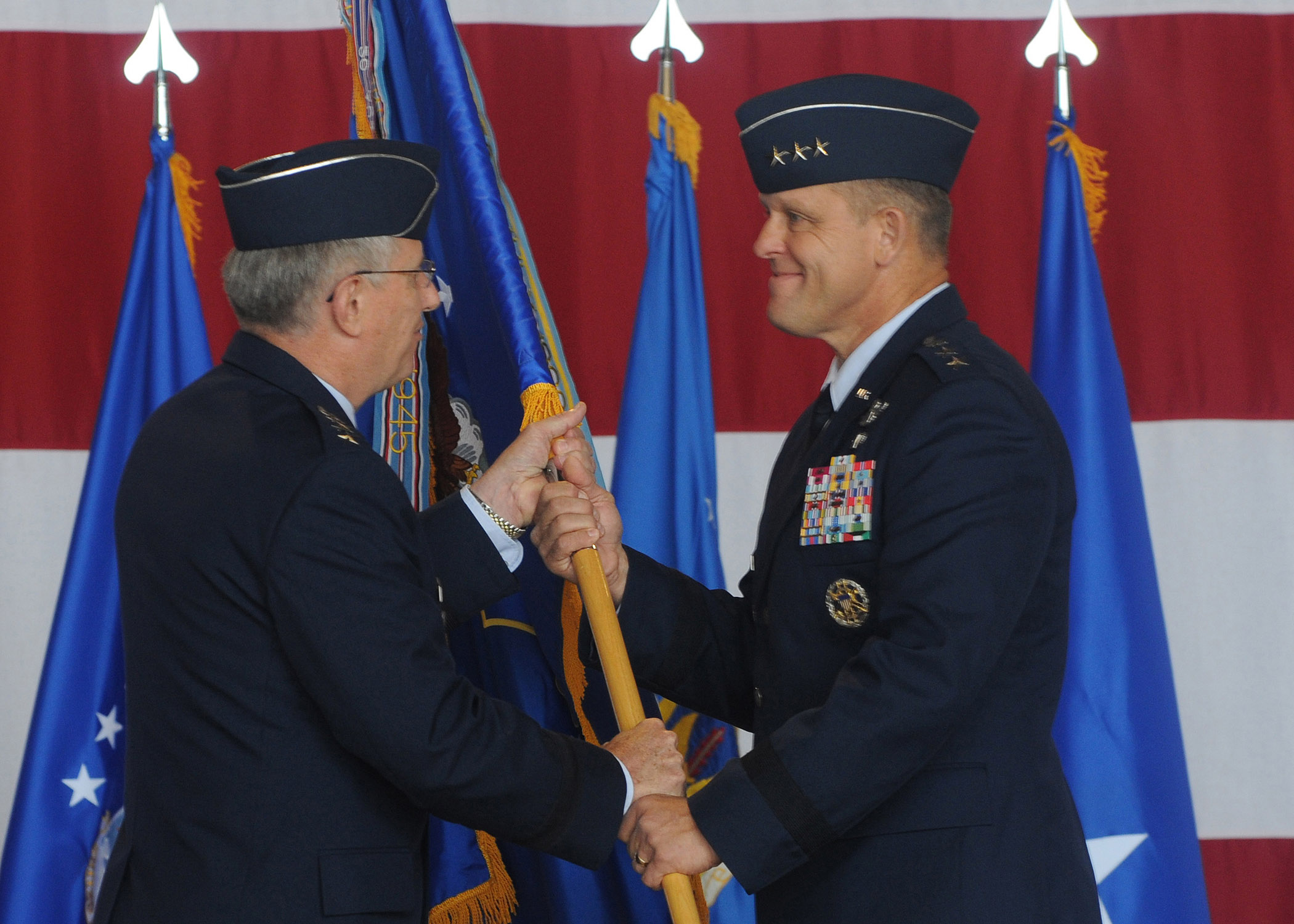 Gen. Roger Brady; U.S. Air Forces in Europe commander; passes the 3rd Air Force guidon to Lt. Gen. Frank Gorenc; 3rd AF commander; during General Gorenc’s assumption of command ceremony Aug. 24, 2009, Ramstein.